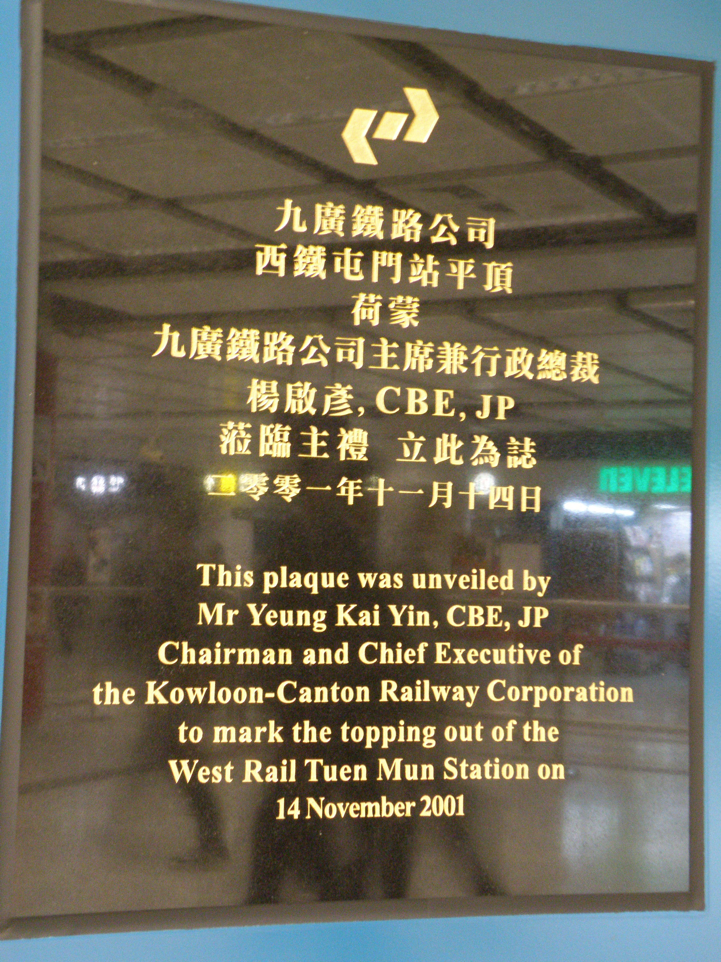 Topping out plaque of Tuen Mun Station, Hong Kong.